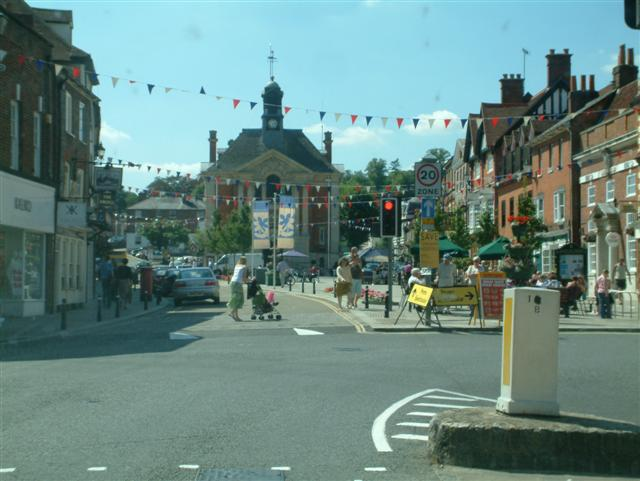 View west along Market Place, Henley-on-Thames, Oxfordshire, with the Town Hall at the far end